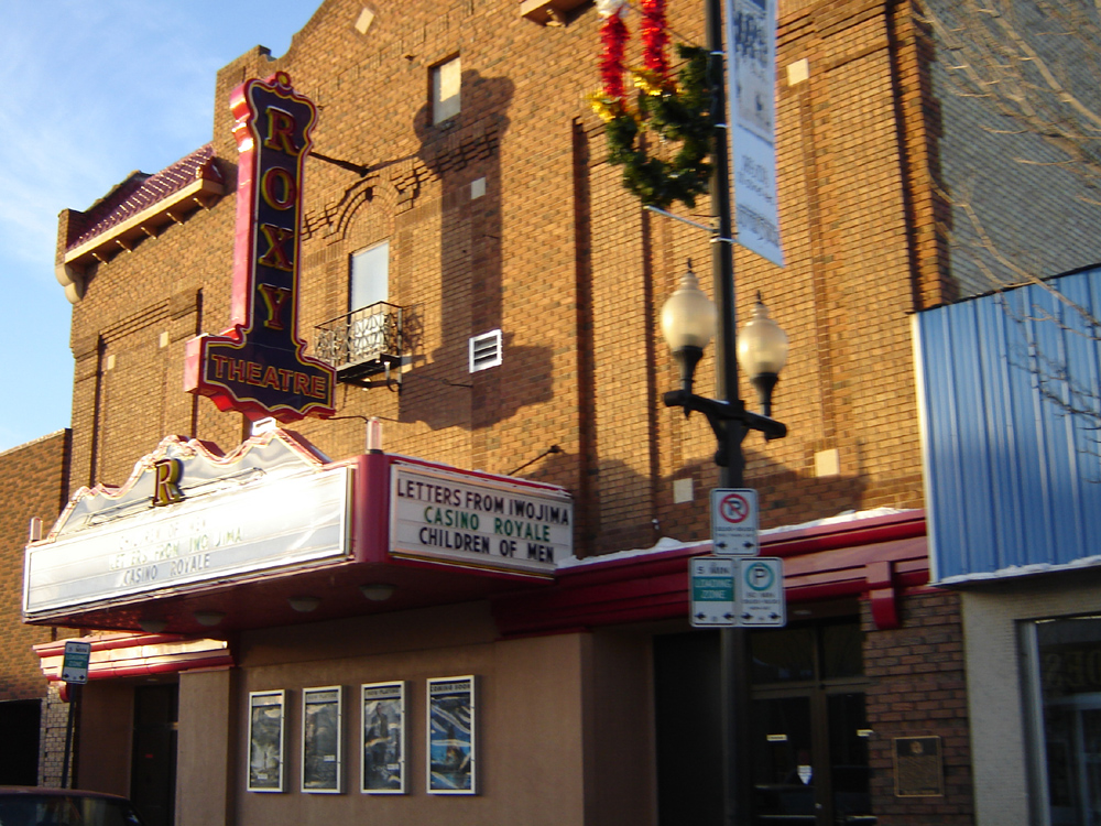 Roxy Theatre Riversdale, Core Neighbourhoods SDA, Saskatoon, Saskatchewan, Canada